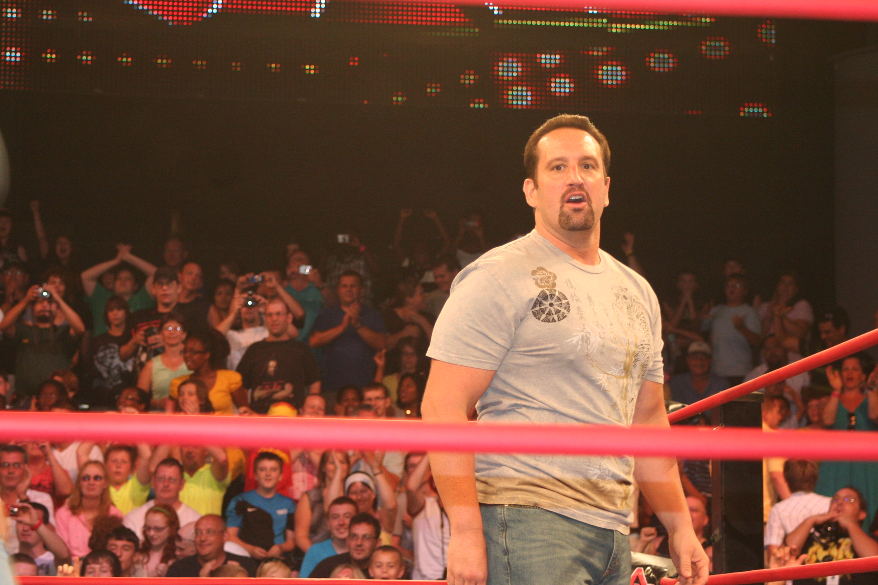 Professional wrestler Tommy Dreamer at TNA's Impact! television taping on July 26, 2010.